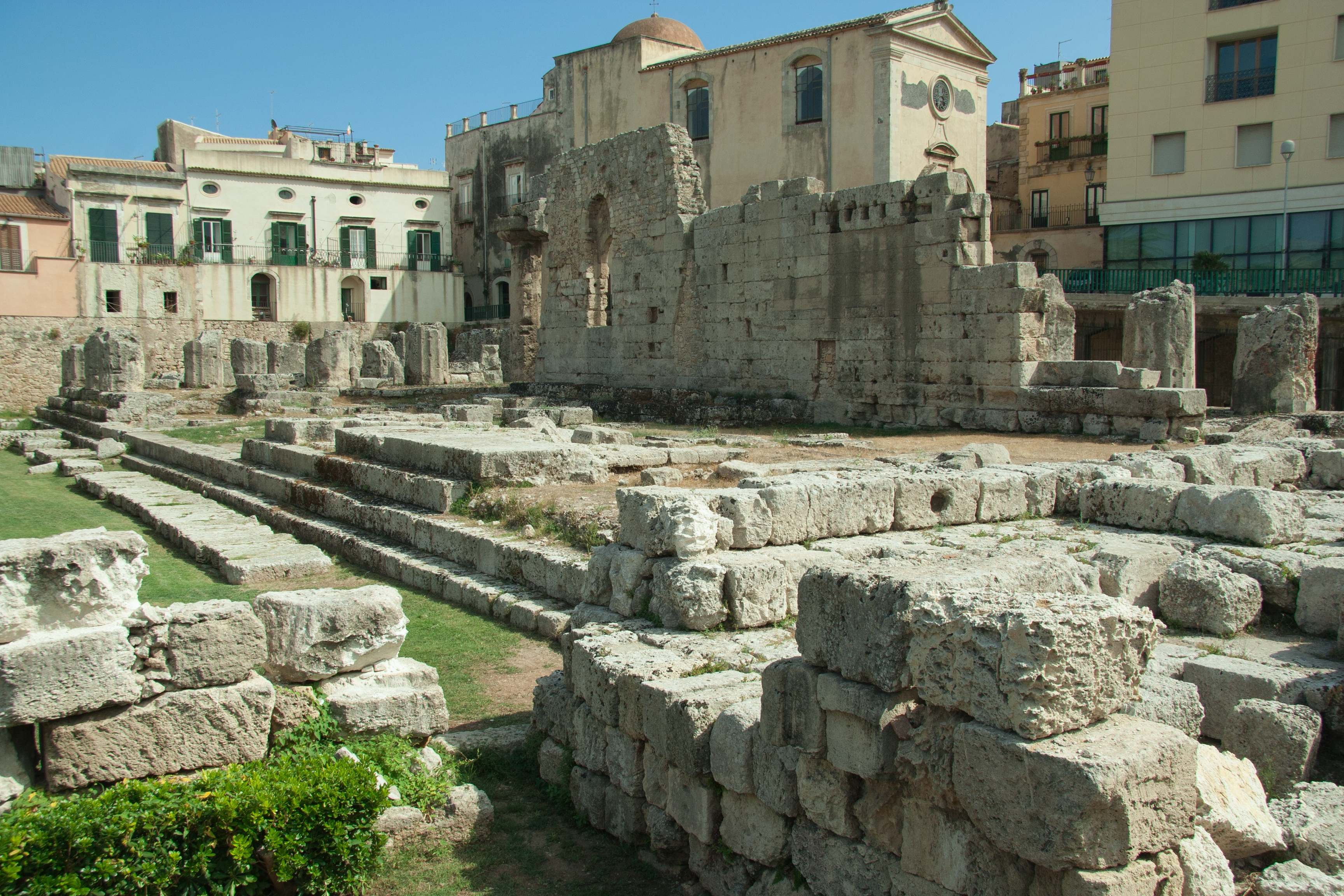 Temple of Apollo in Doric order, architect Epikles, ca 565 BC. Byzantine and Norman rebuildings. Piazza Pancali, Ortigia.